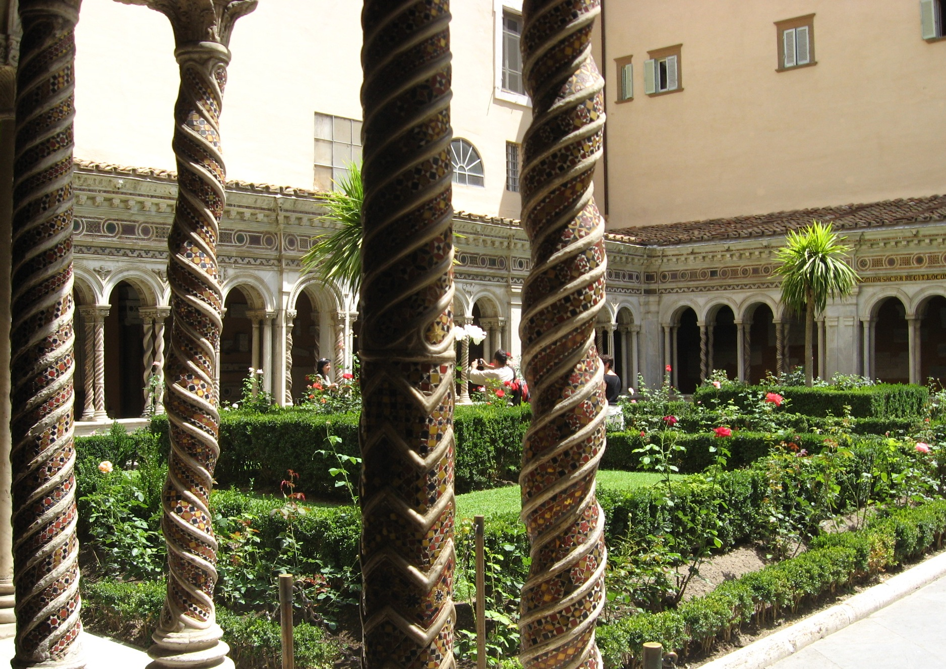 Cloister of St. Paul outside the Walls, Rome